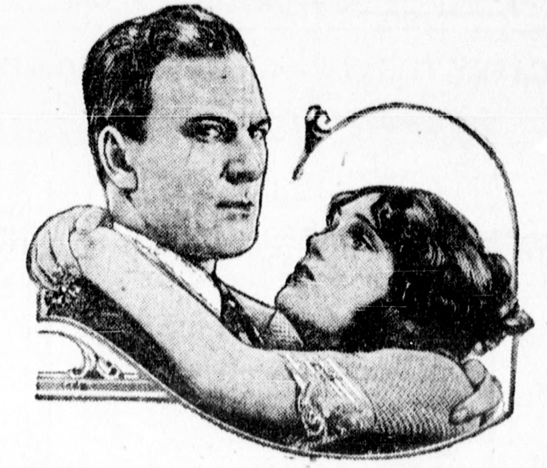 Silent movie actors Thomas Meighan and Pauline Starke as they appeared in the newspaper The Morning Tulsa Daily World in an advertisement for the American comedy film If You Believe It, It's So (1922).